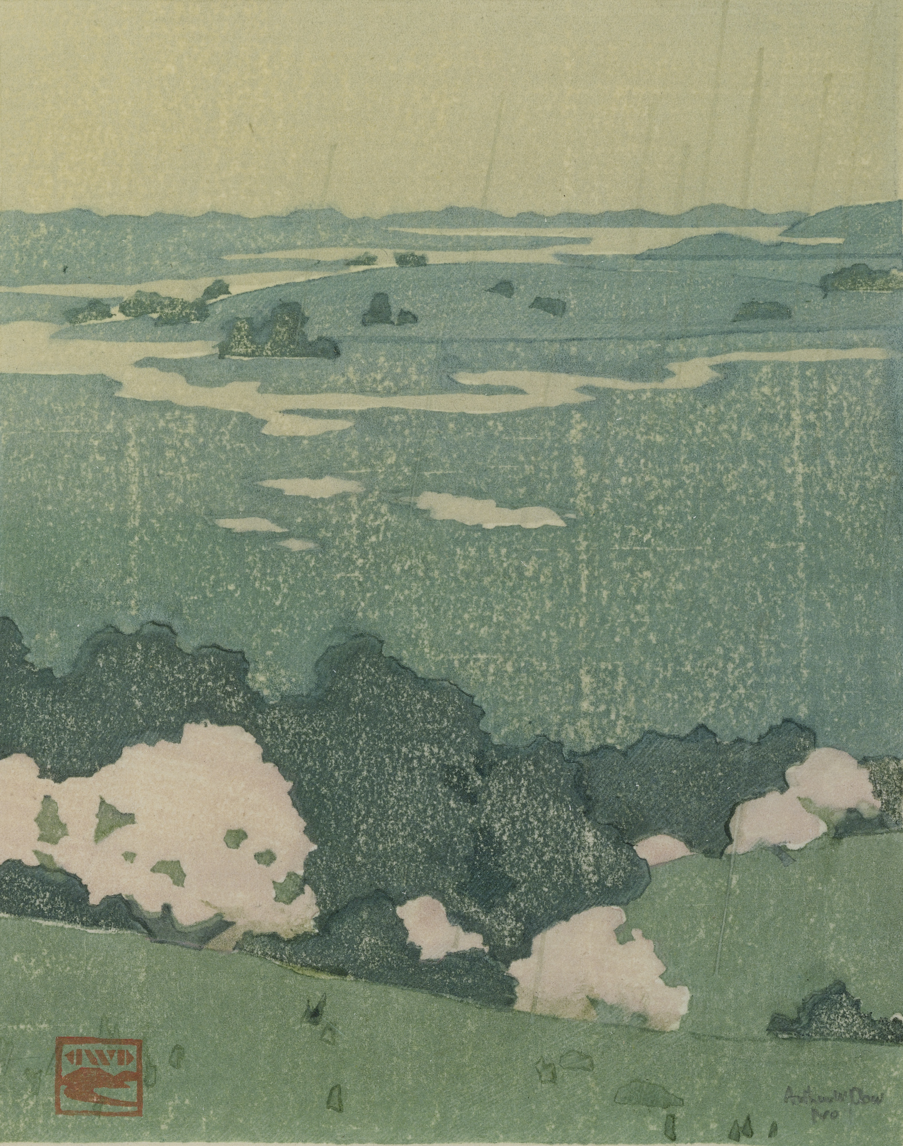 Rain in May